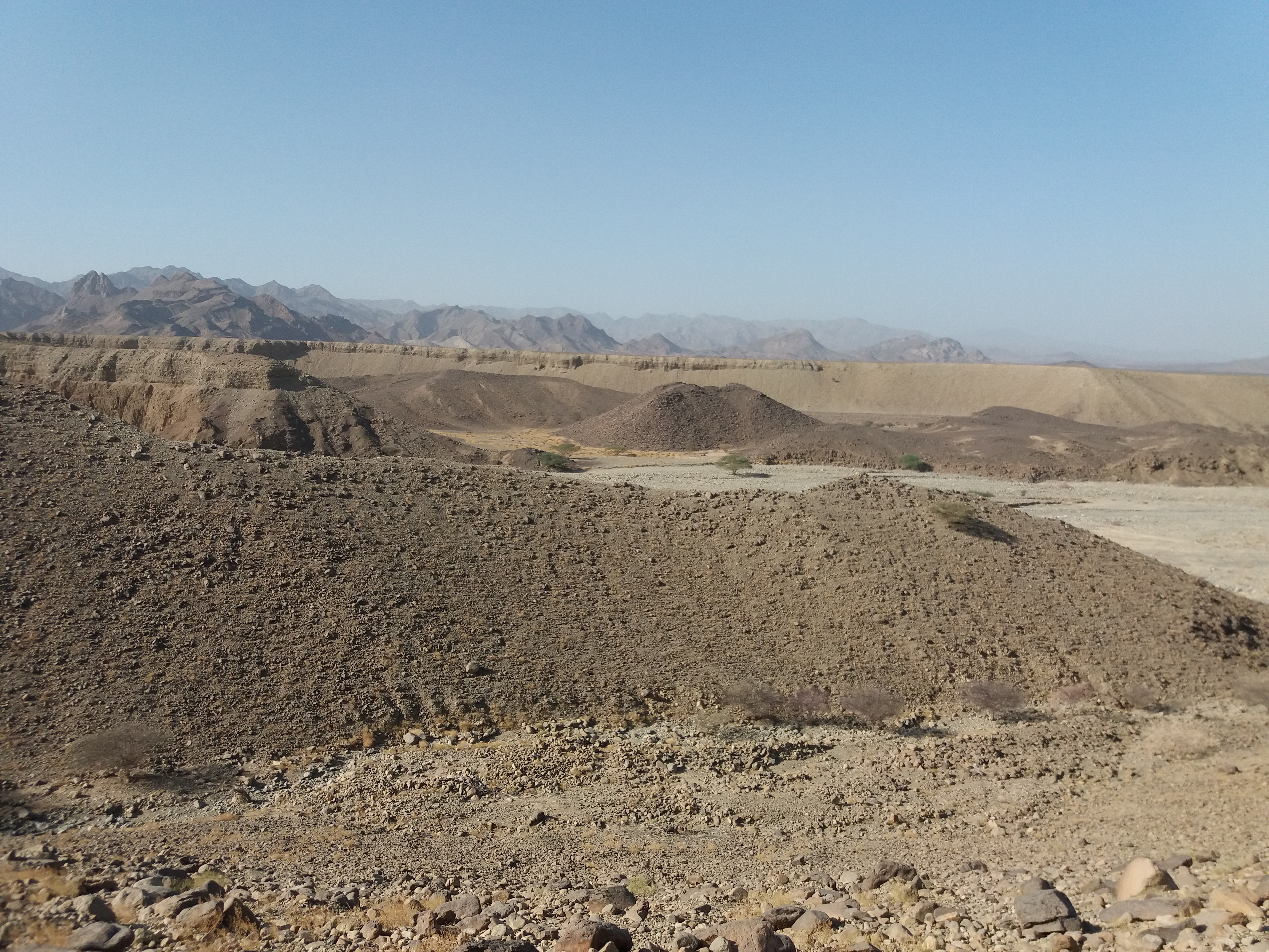 Danakil depression